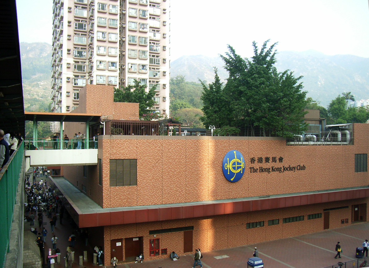 九廣輕鐵, KCR Light Rail, 杯渡站, Pui To Station, 杯渡路, Pui To Road, Tuen Mun, New Territories, Hong Kong. (Photo created by User:TUmuMATo)。